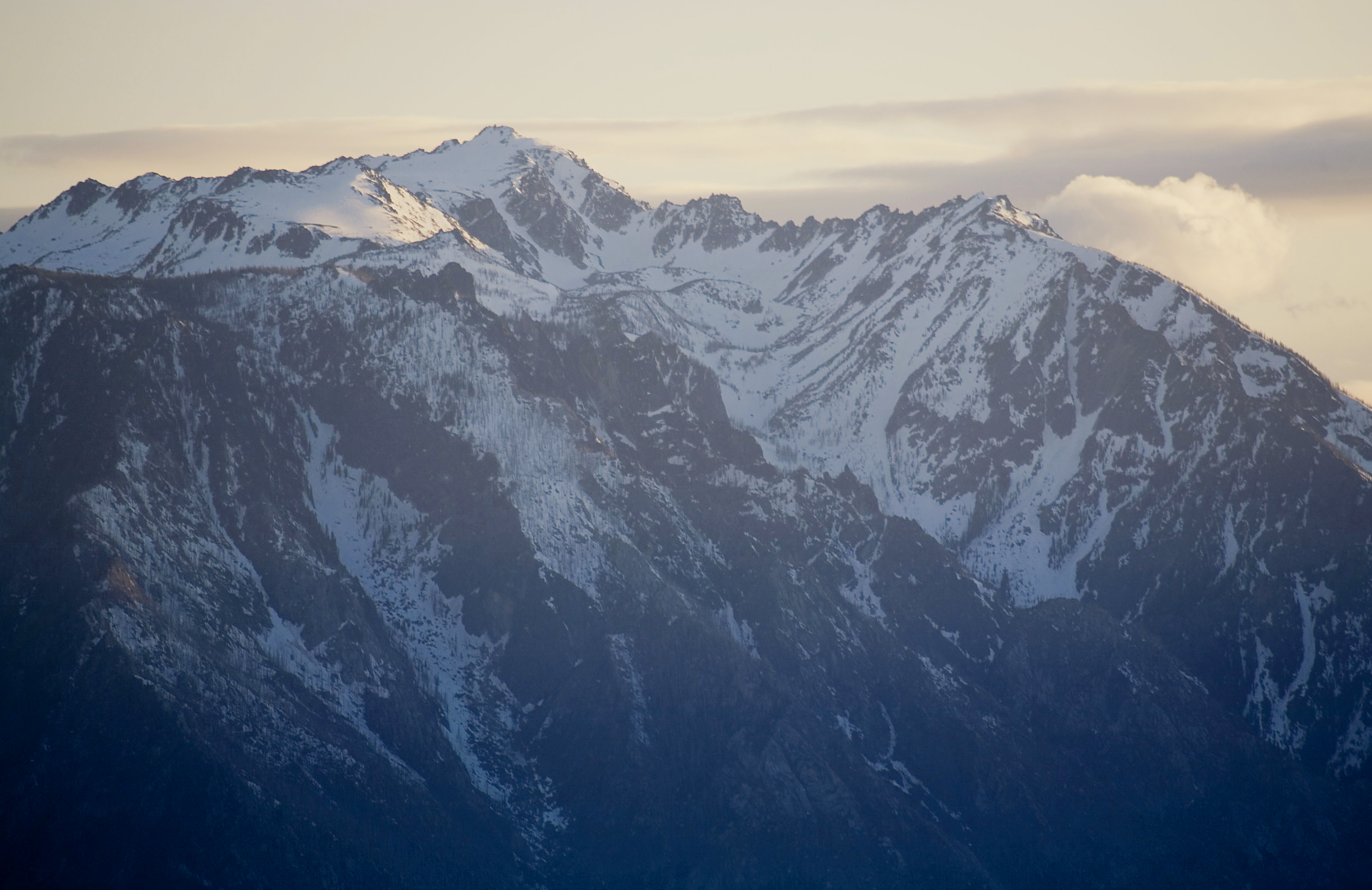 Okanogan-Wenatchee National Forest